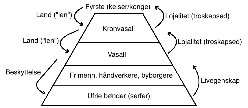 Simple sketch of the feudal system (text in Norwegian)